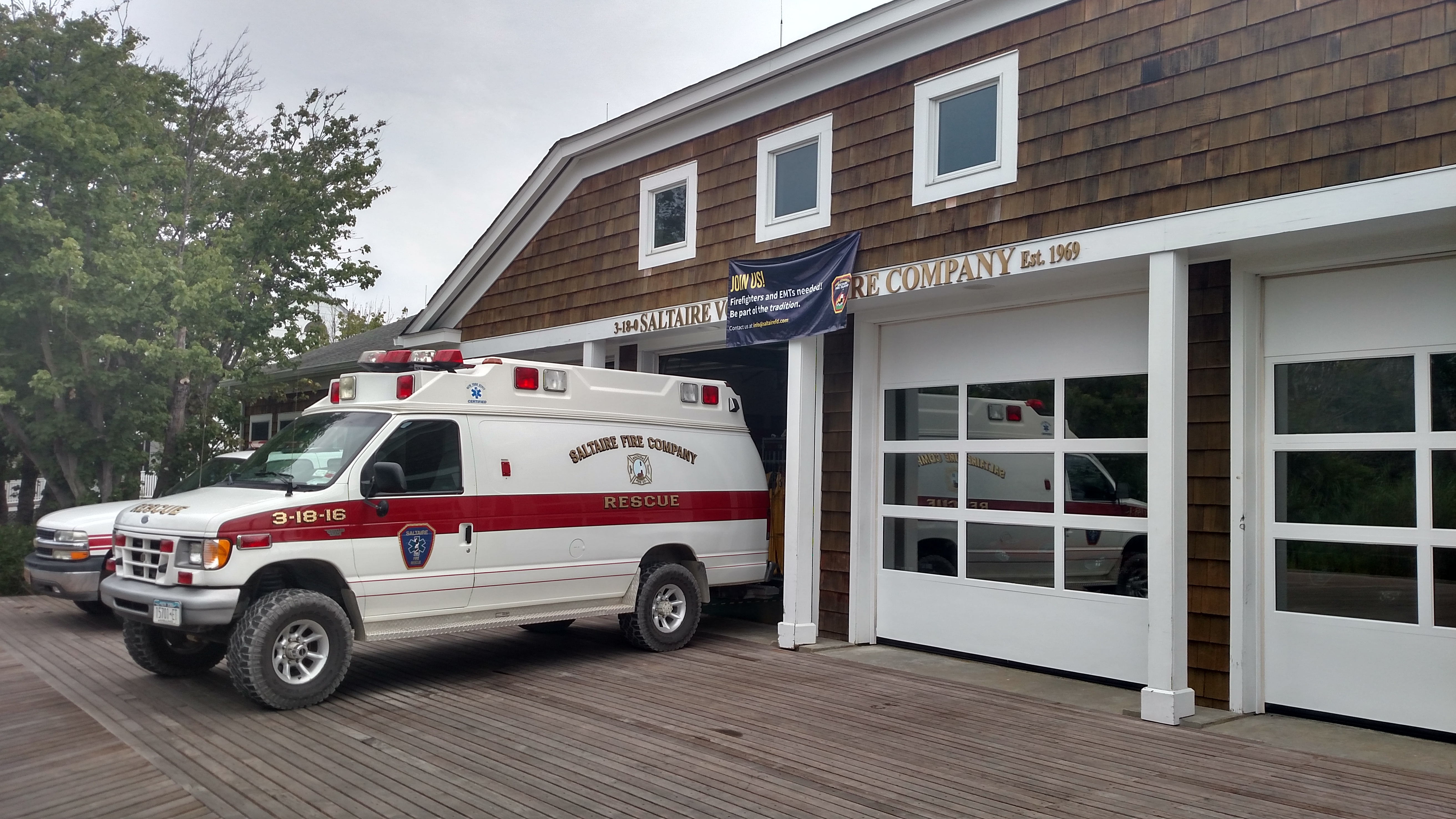 Photo from Saltaire, New York